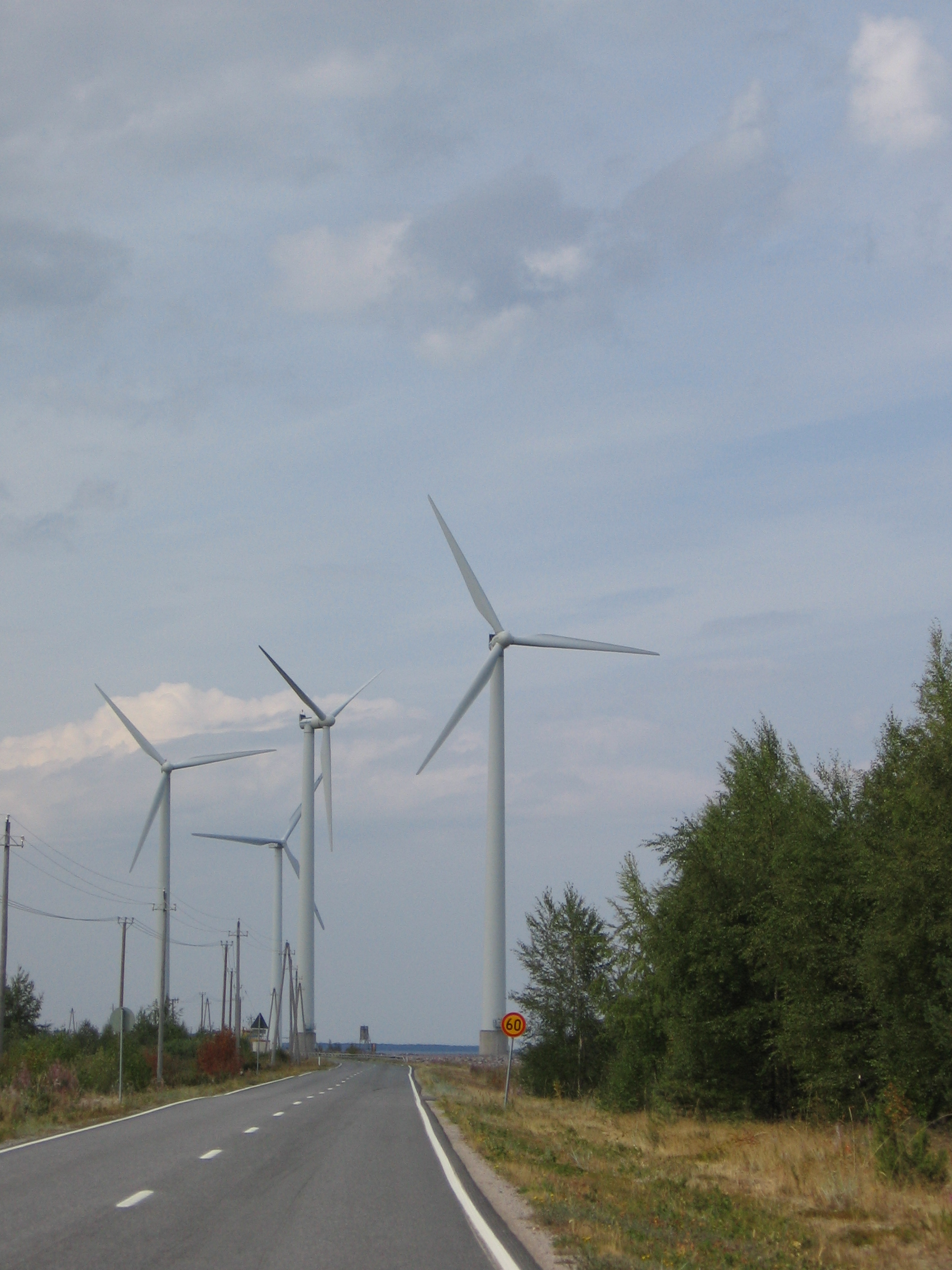 Wind generators from Riutunkari, Oulunsalo, Finland.